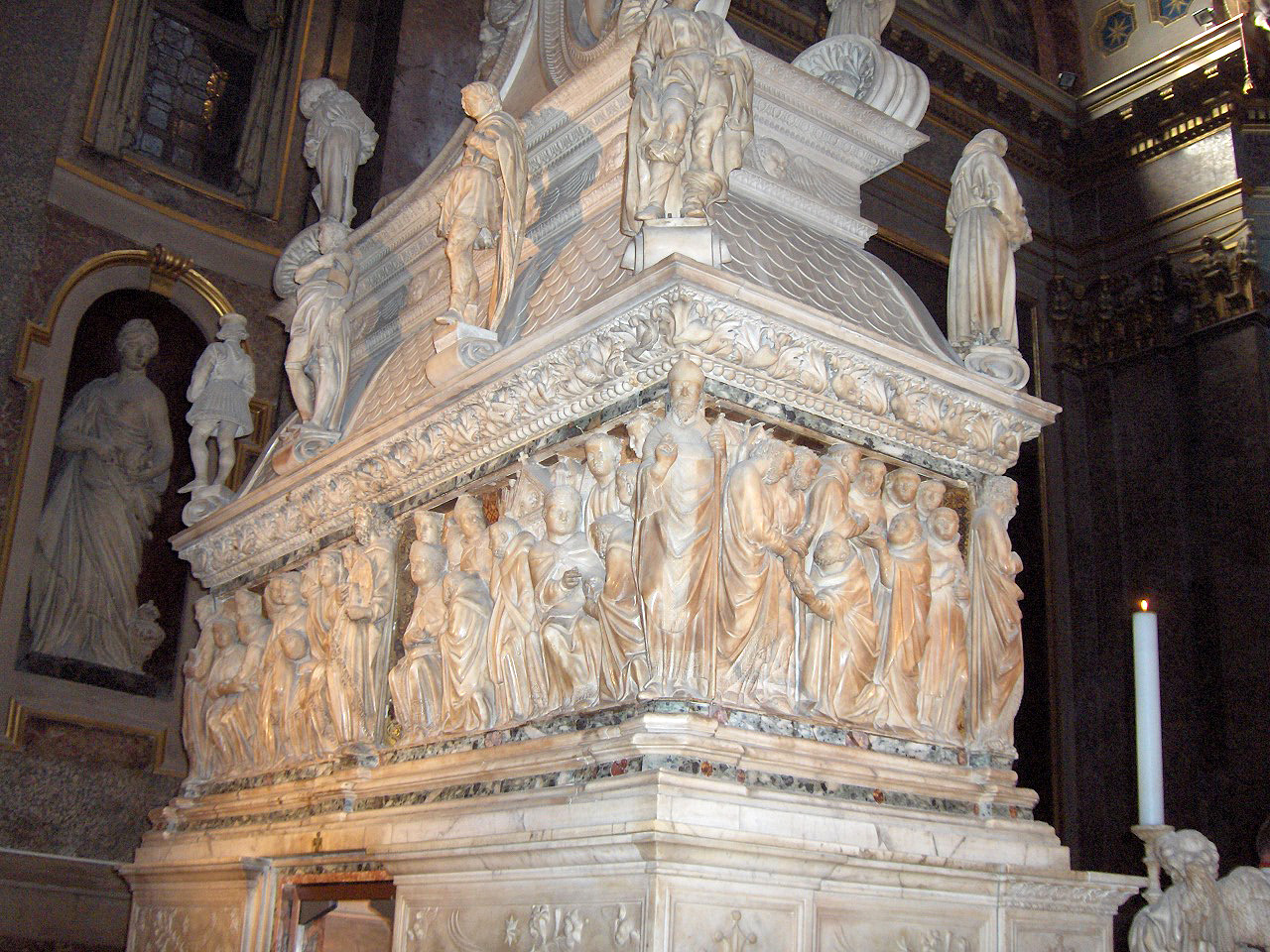 Backside + left side : St Dominic touched by God's Hand in the basilica of St Peter in Rome; Ark of Saint Dominic, Basilica of Saint Dominic, Bologna, Italy